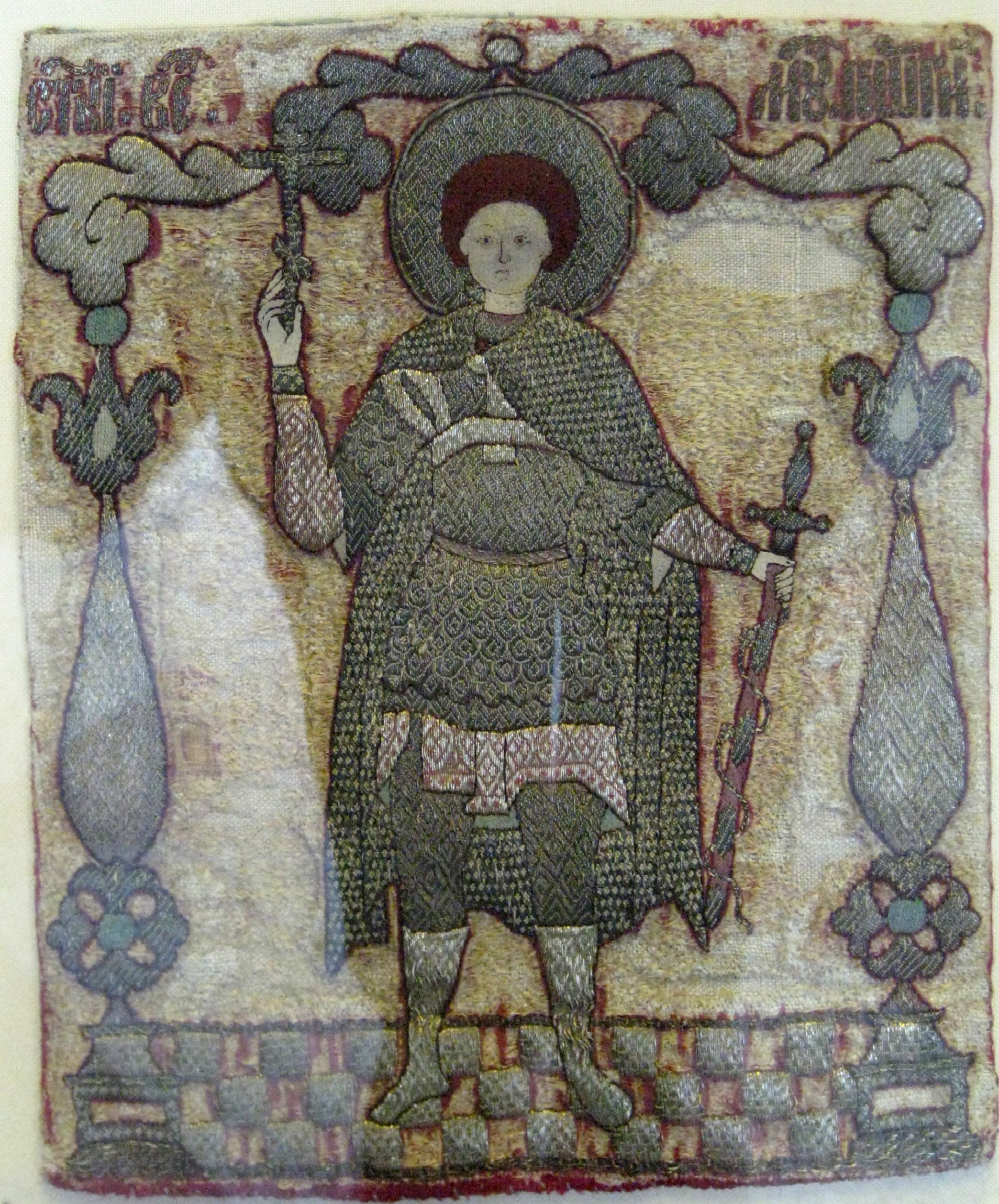 S.George, 1st h. of 17 c.